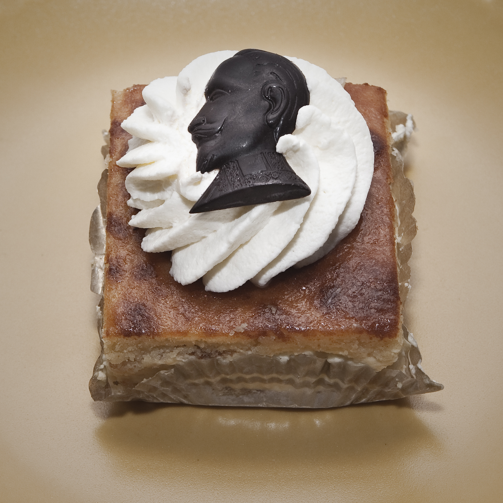 Gustav Adolfsbakelse, a cake eaten on Gustav Adolfsdagen (Gustavus Adolphus Day), November 6, in Sweden.